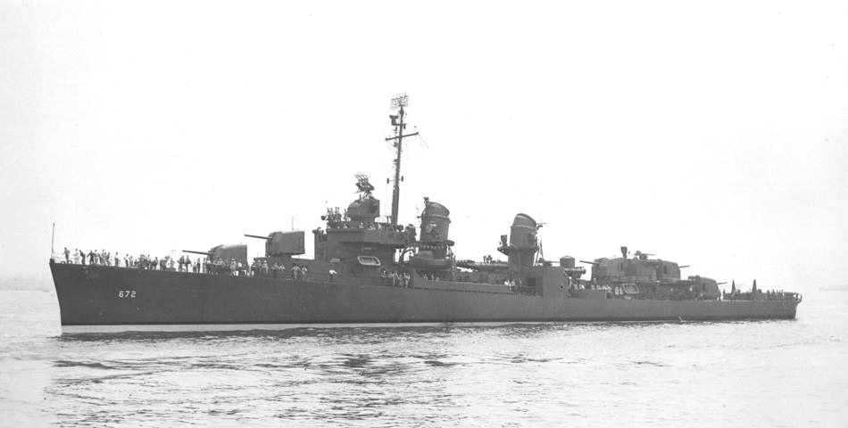 The U.S. Navy destroyer USS Healy (DD-672), circa 1943.